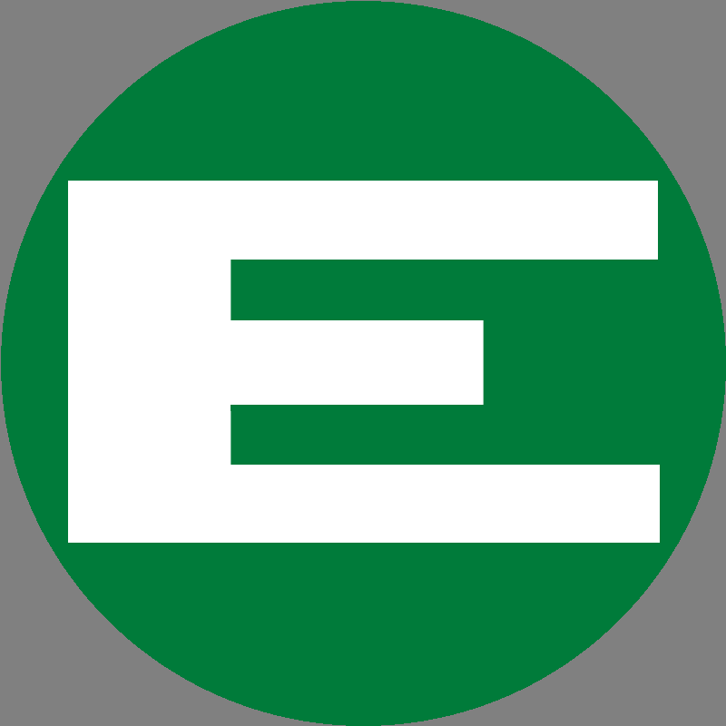 Car sticker according to the Saarbrücken Agreement of 1984 and later to the Schengen Agreement of 1985